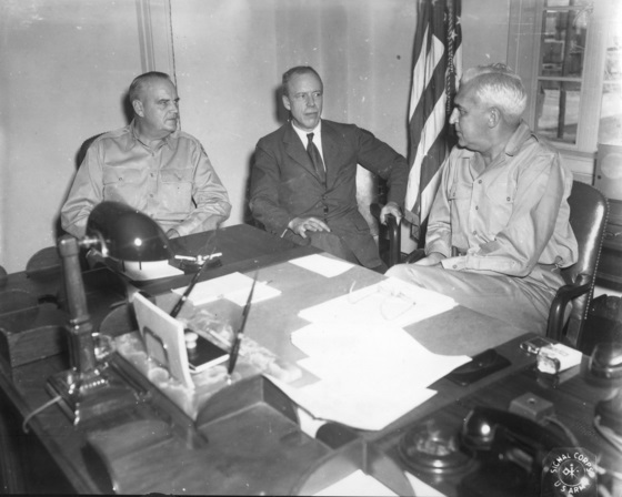 From left to right, United States General Wilhem D. Styer, U. S. Secretary of War Robert P. Patterson and U. S. High Commissioner of the Philipines Paul V. McNutt met in McNutt's office in Manila in 1946.